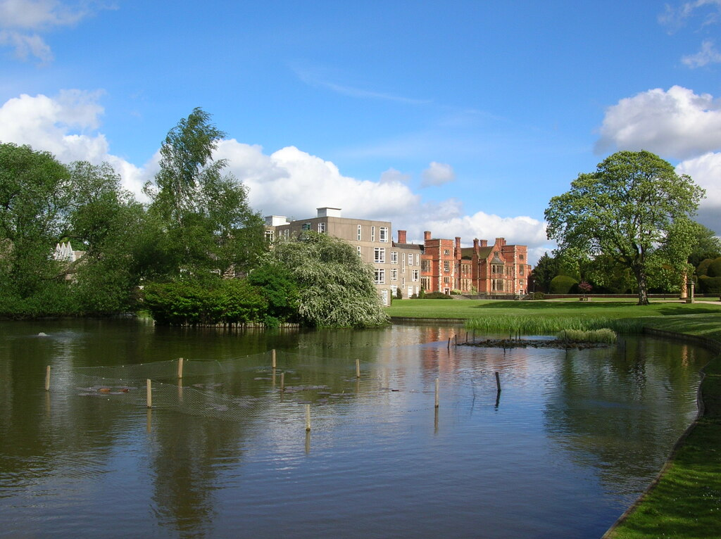 Heslington Hall & Derwent College. Situated at the top end of the lake, Derwent is the oldest of the colleges here at the University of York. Herons are a common sight around this part of the lake.